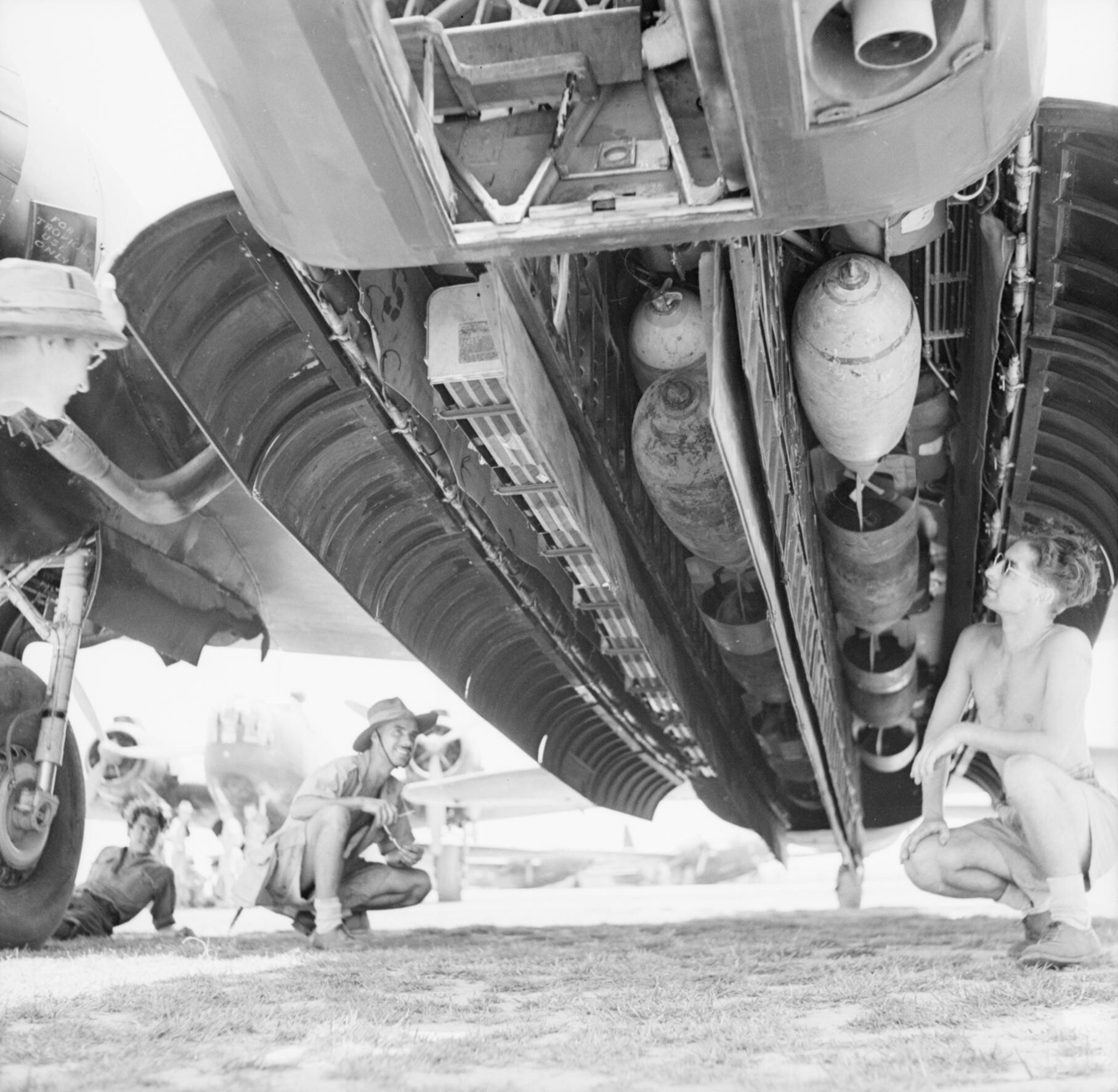 IWM caption : Leading Aircraftman W T Messenger of Barry, South Wales and Aircraftman R J Frost of Brynmill, Swansea, check over the a load of 1,000-lb HE and Small Bomb Containers (SBC) filled with 4lb incendiaries in the bomb bay of a Vickers Wellington Mark X of No. 99 Squadron RAF at Jessore, India, prior to a sortie over Burma.